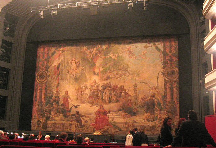 Wien, Austria: Volksoper, curtain